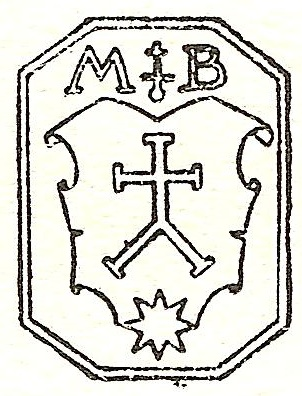 Petschaft of Matthias Benningk